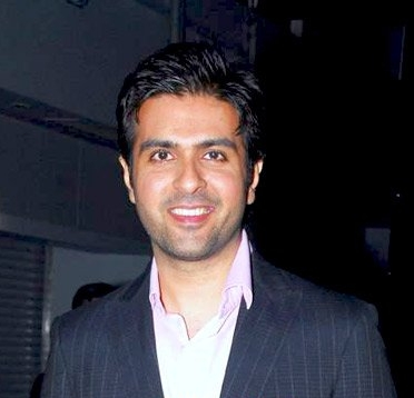 Harman Baweja at GR8! Women Awards 2011 in Dubai.